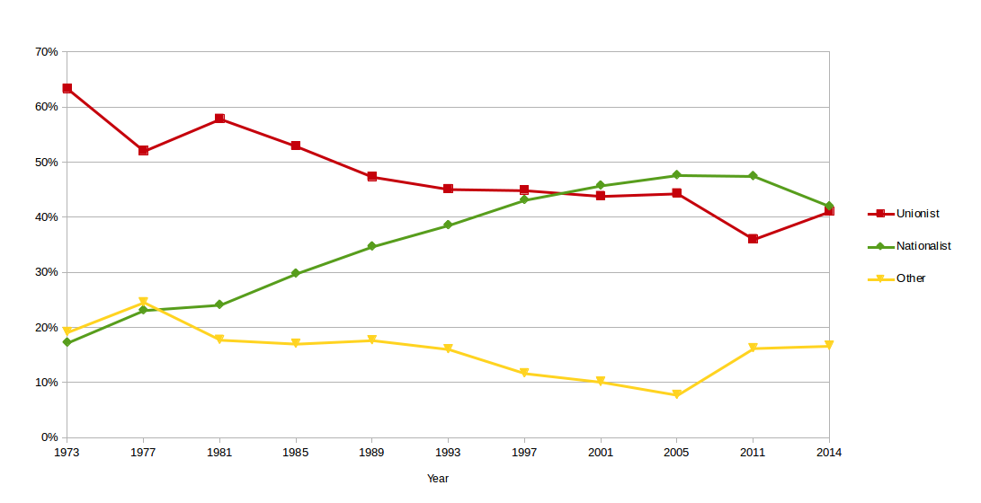 Shows the percentage of first preference votes given to unionist, nationalist and other candidates in elections to Belfast City Council. Note that the Alliance party has been included as "other" in all years.